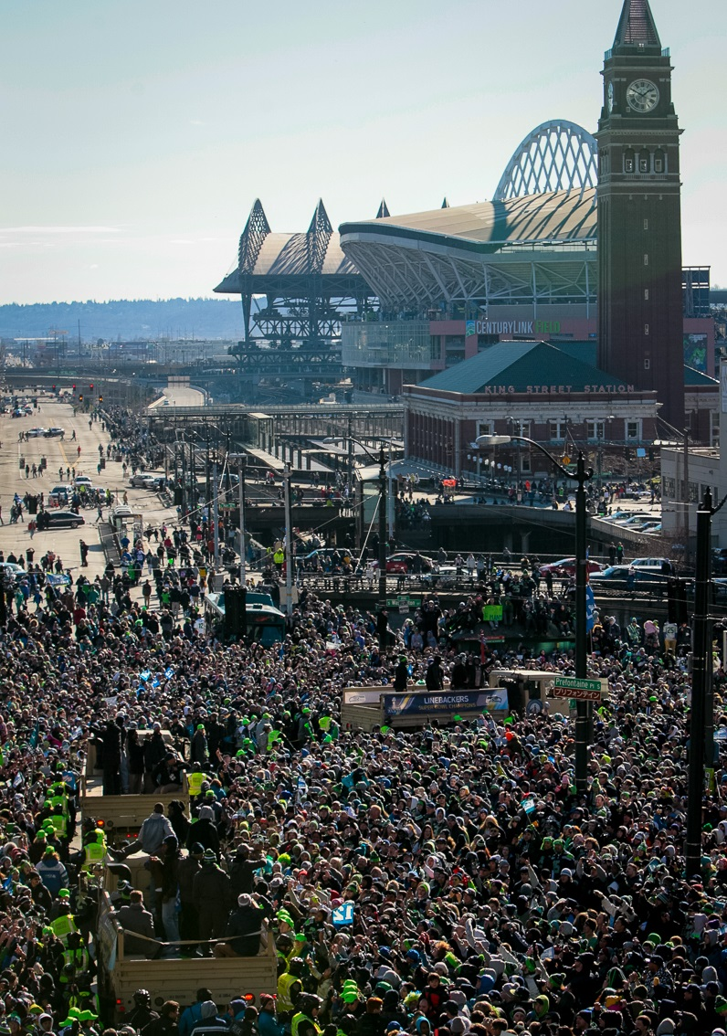 The crowd outside the CenturyLink Field celebrating the Seahawks winning the Super Bowl XLVIII in Seattle, 02.05.2014